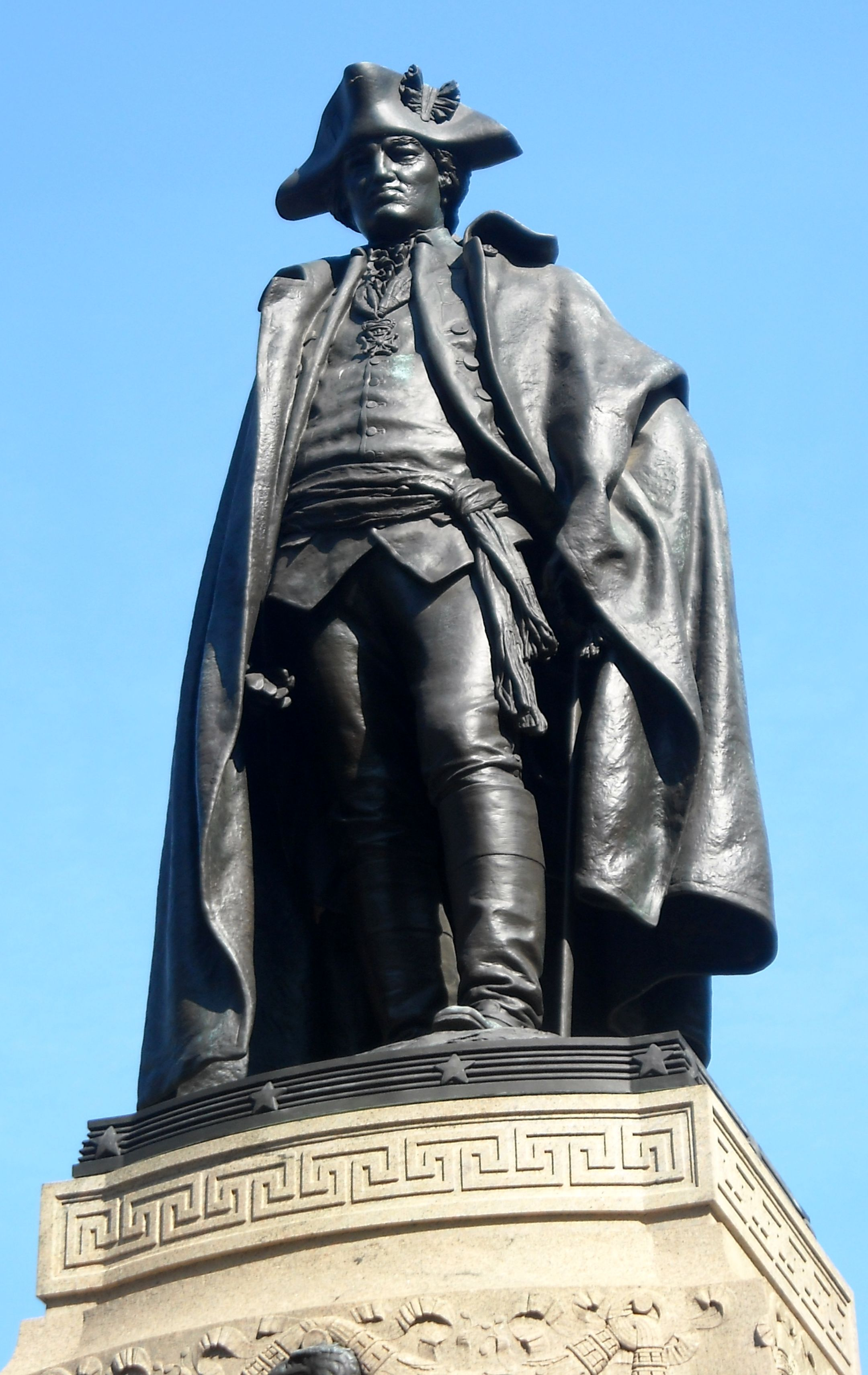 Baron von Steuben Memorial "erected by the Congress of the United States"